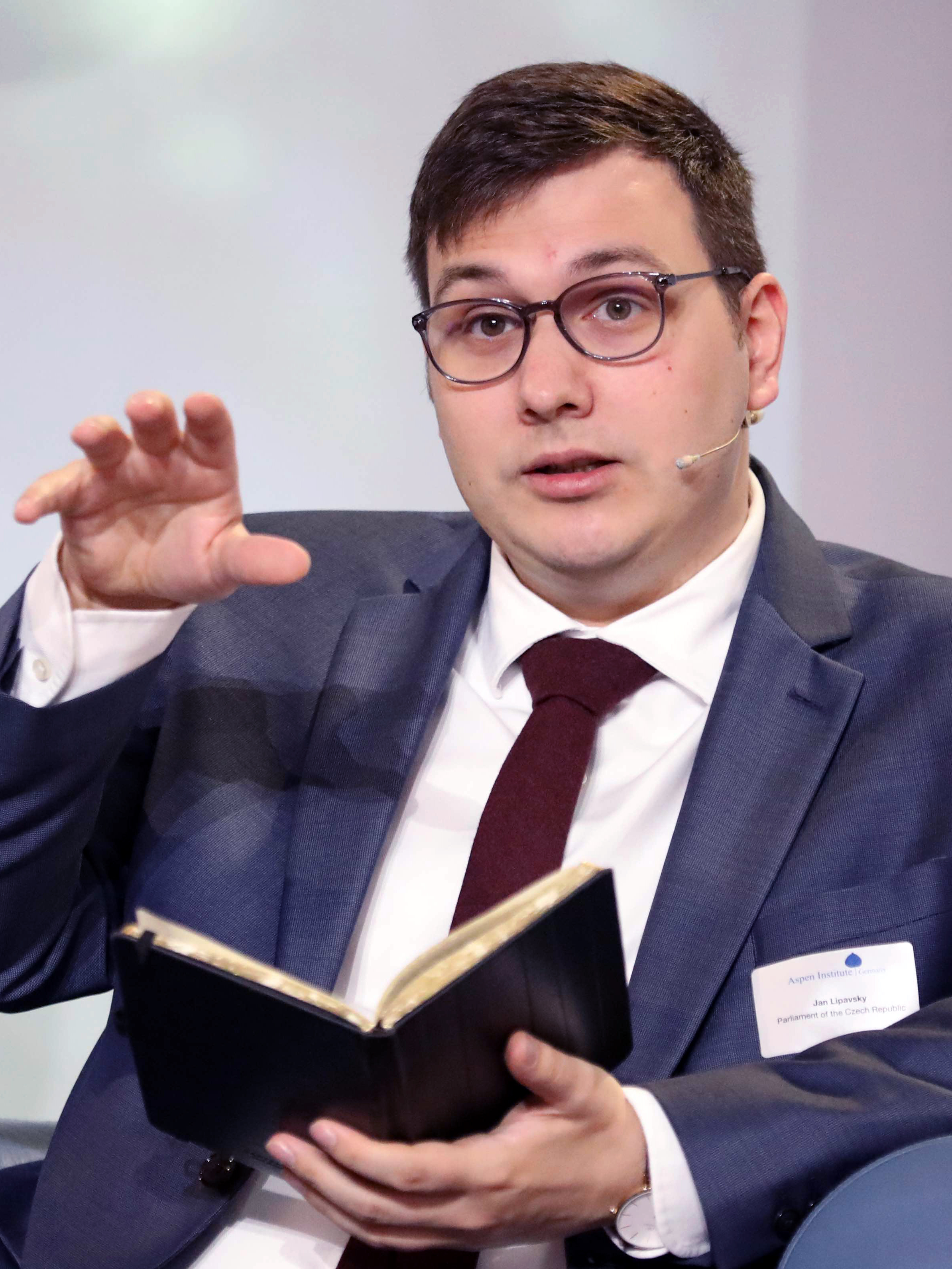 Czech politician Jan Lipavský on 17 May 2019 at the Berlin Cyber Security Forum 2019